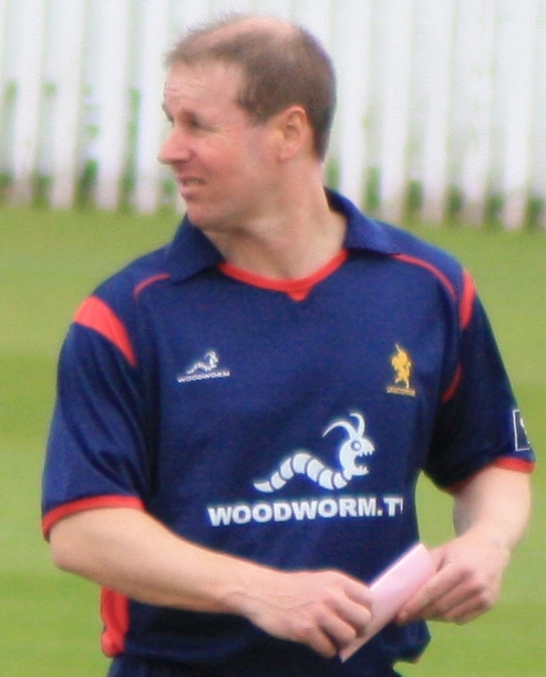 Keith Parsons on his return to the County Ground, Taunton as captain of the Unicorns cricket team in a Clydesdale Bank 40 match against Somerset.